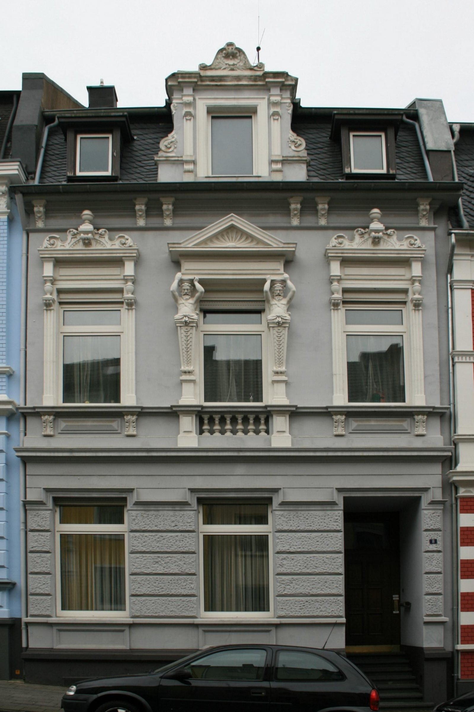 Cultural heritage monument No. B 052 in Mönchengladbach